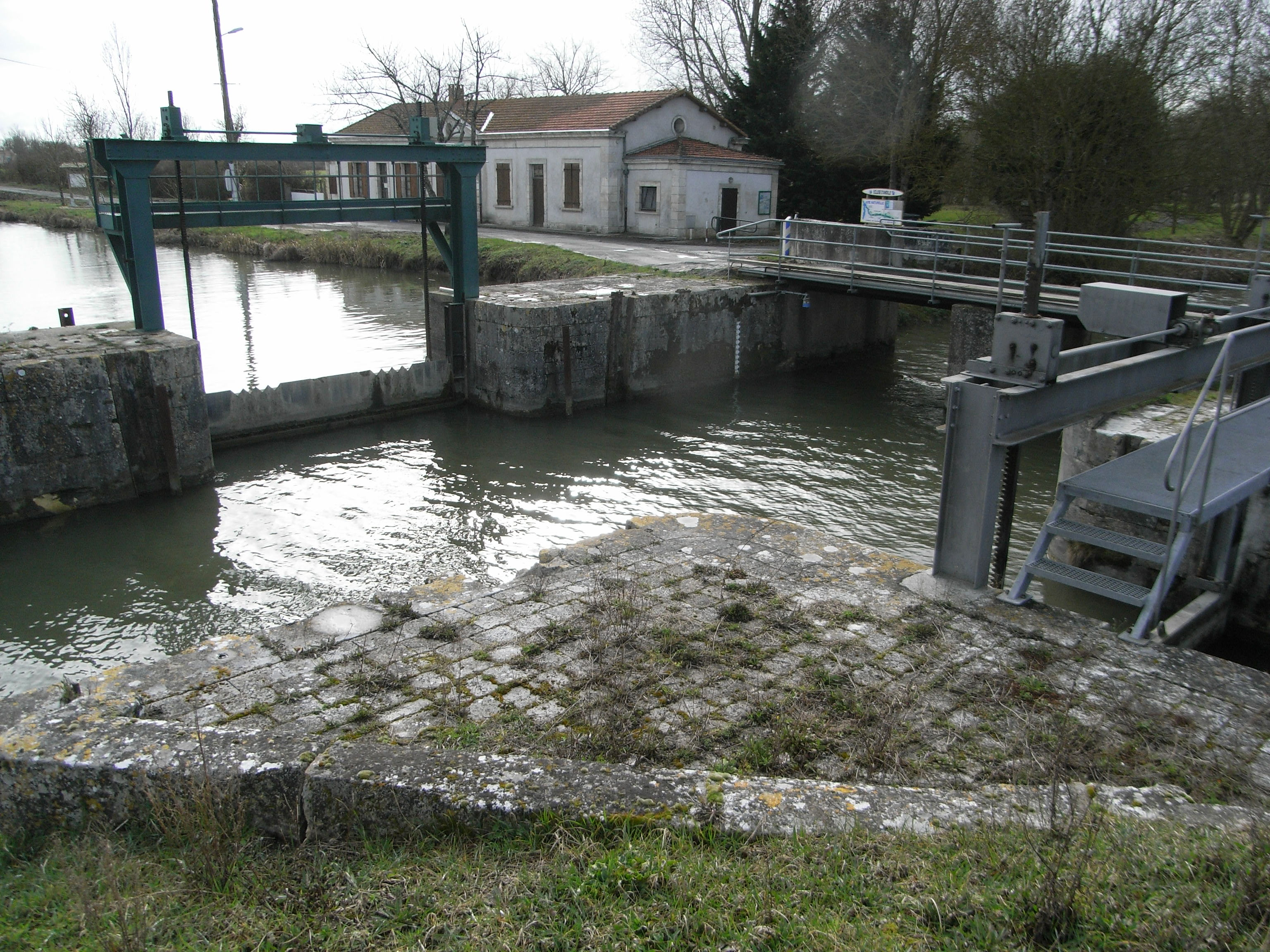 French canal to La Rochelle at Marans in Charente-Maritime (17) at Andilly